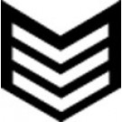 This is the sleeve insignia for an able cadet in the USNLCC.